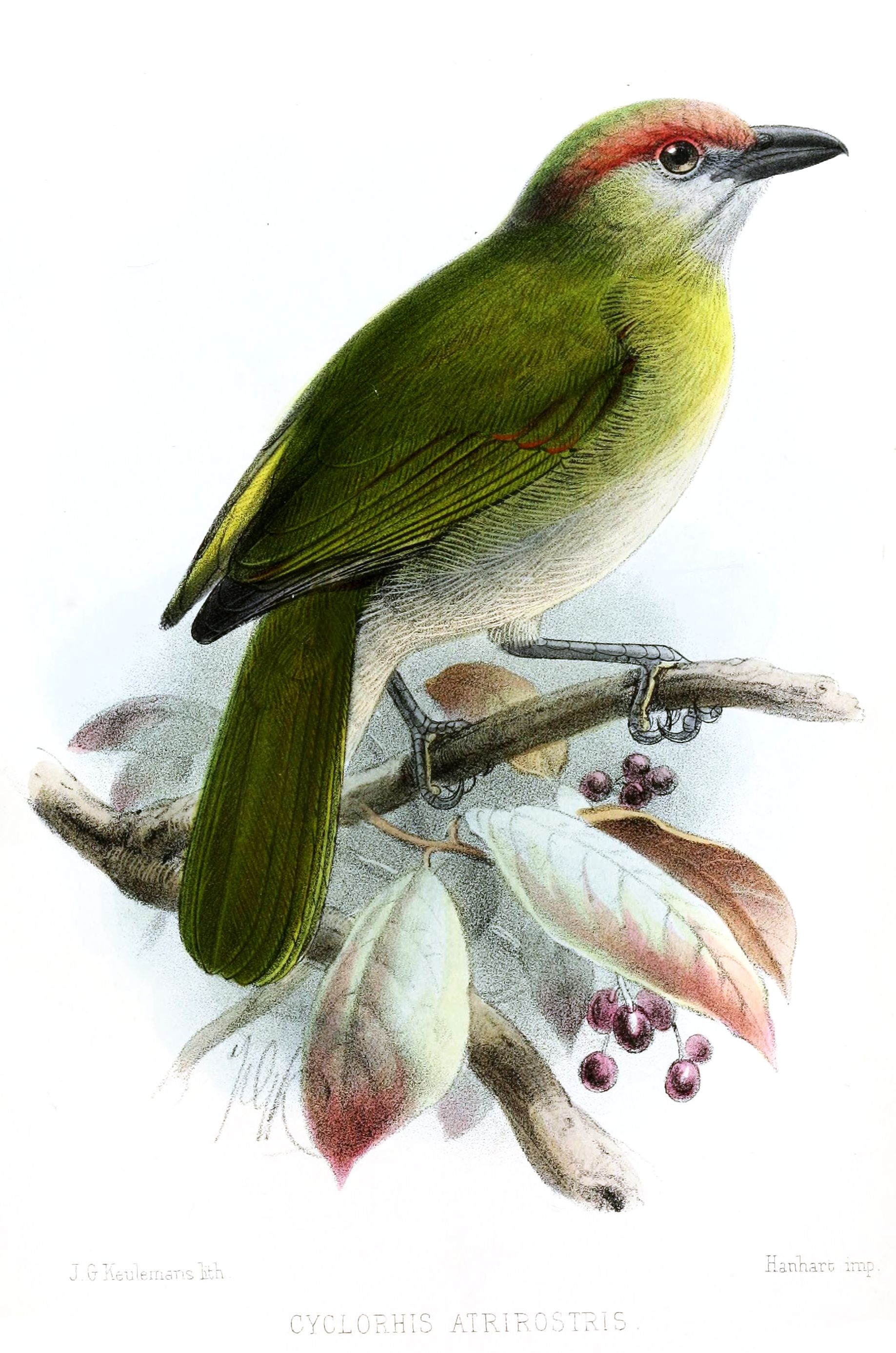 Cyclorhis atrirostris = Cyclarhis nigrirostris atrirostris